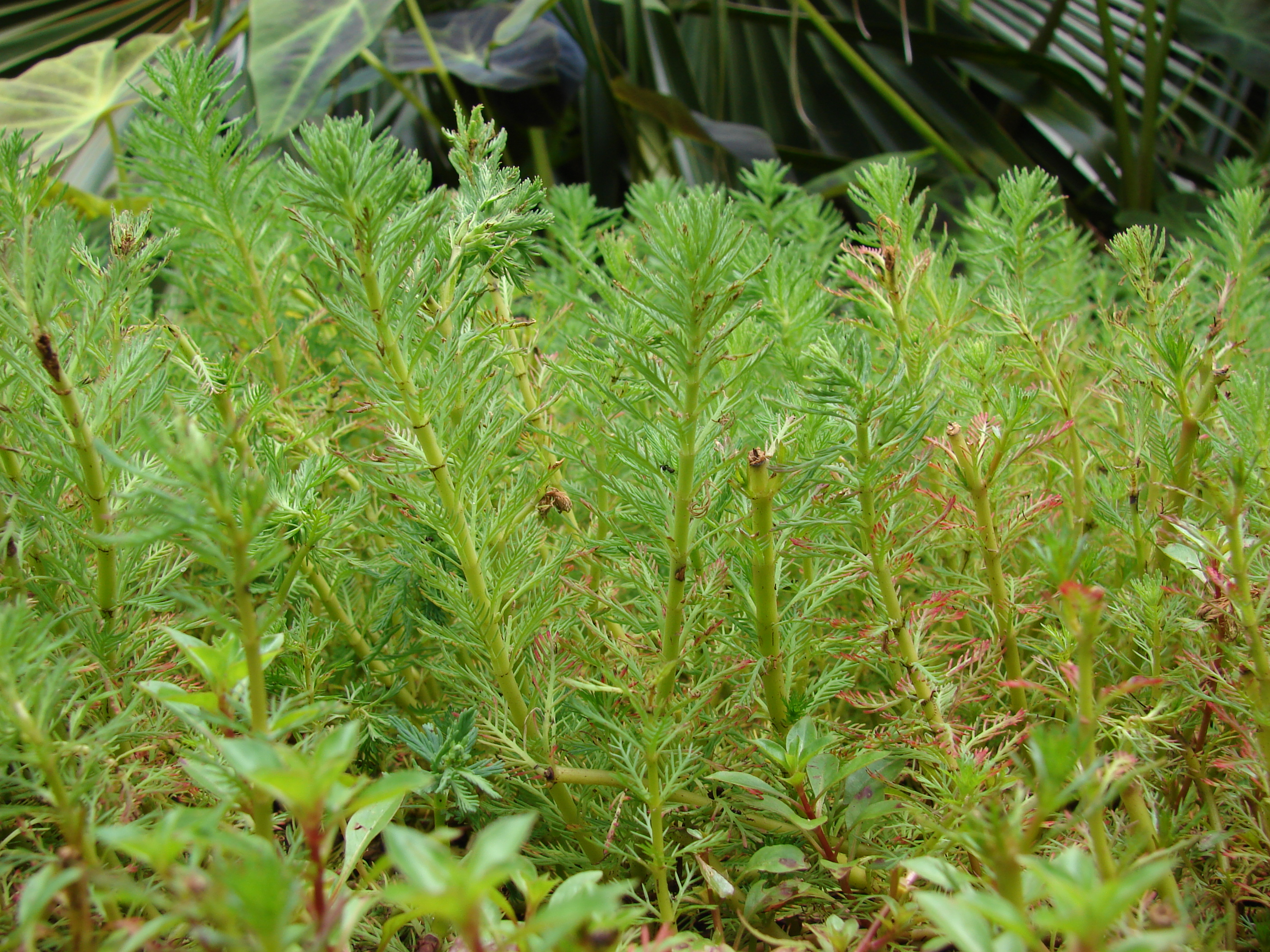 Myriophyllum aquaticum (habit). Location: Oahu, Hoomaluhia Botanical Garden